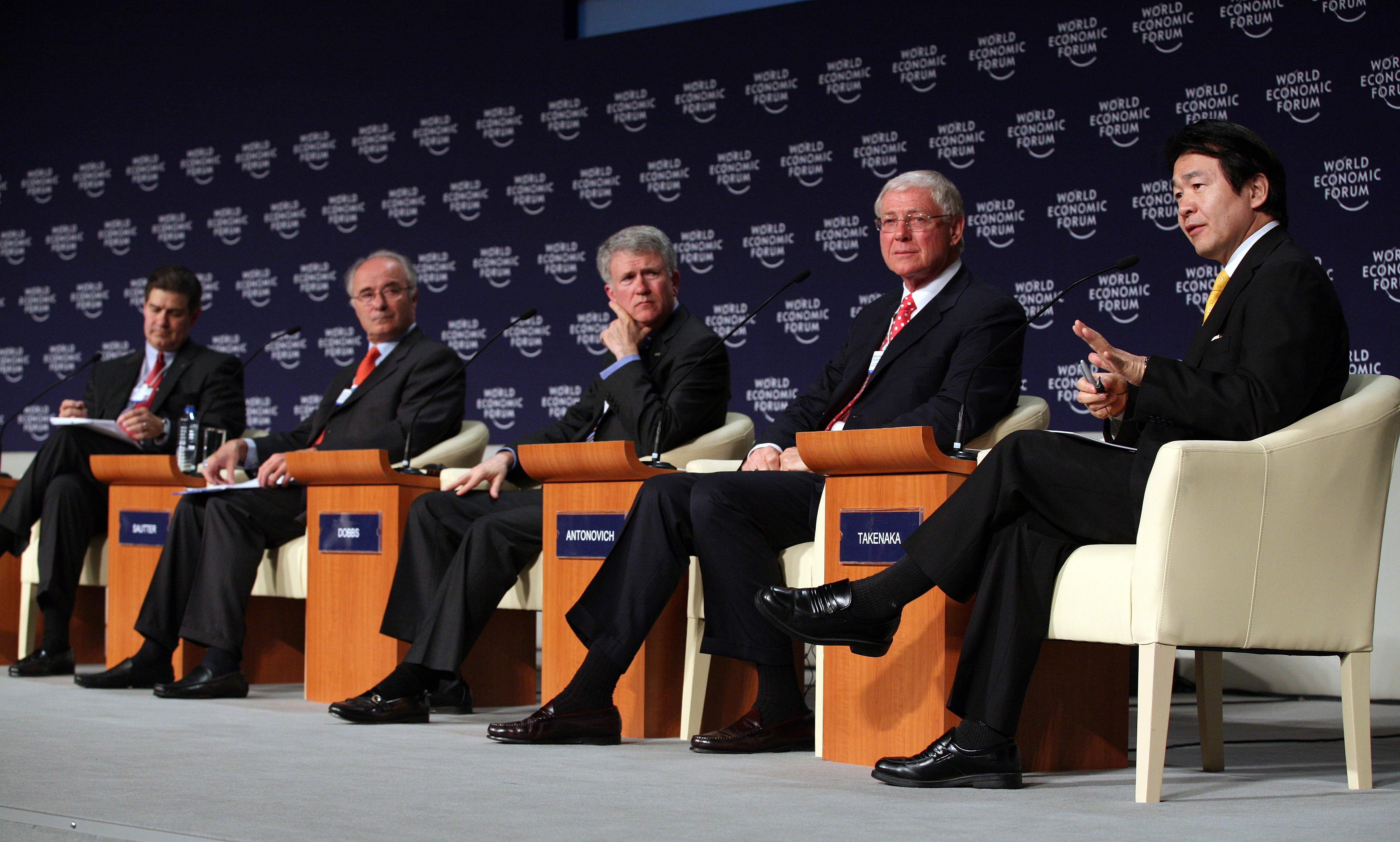 TIANJIN/CHINA, 27SEPT08 - Heizo Takenaka (right) , Director, Global Security Research Institute, Keio University, Japan; Member of the Foundation Board of the World Economic Forum speaks at the Mega-Regions: Driving Growth and Innovation Globally plenary session at the World Economic Forum Annual Meeting of the New Champions in Tianjin, China 27 September 2008. From left to right are James S. Turley, Chairman and Chief Executive Officer of Ernst & Young, Christian Sautter, Deputy Mayor of Paris, Economic Development and International Attractiveness, Steve Dobbs, Senior Group President of Fluor Corporation, and Michael D. Antonovich, Los Angeles County Supervisor. Copyright World Economic Forum ( by Natalie Behring